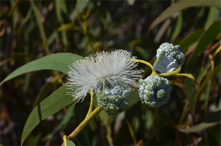 Flower buds of Eucalyptus globulus subsp. globulus near Sandy Bay on the outskirts of Hobart, Tasmania